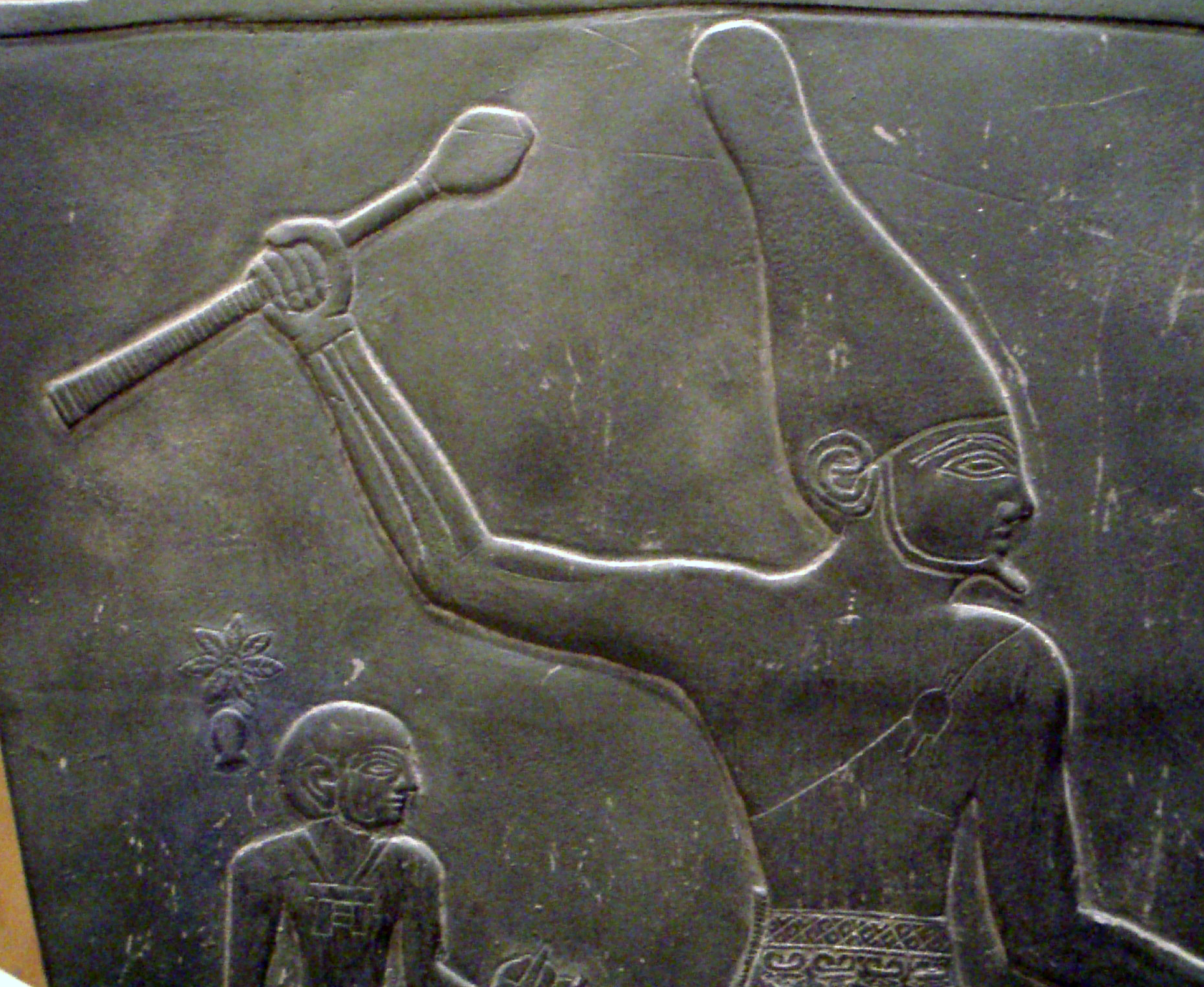 Close-up of the pharaoh Narmer, from a full-sized facsimile of the original Narmer Palette in Cairo, this version residing in the Ancient Egyptian wing of the Royal Ontario Museum.